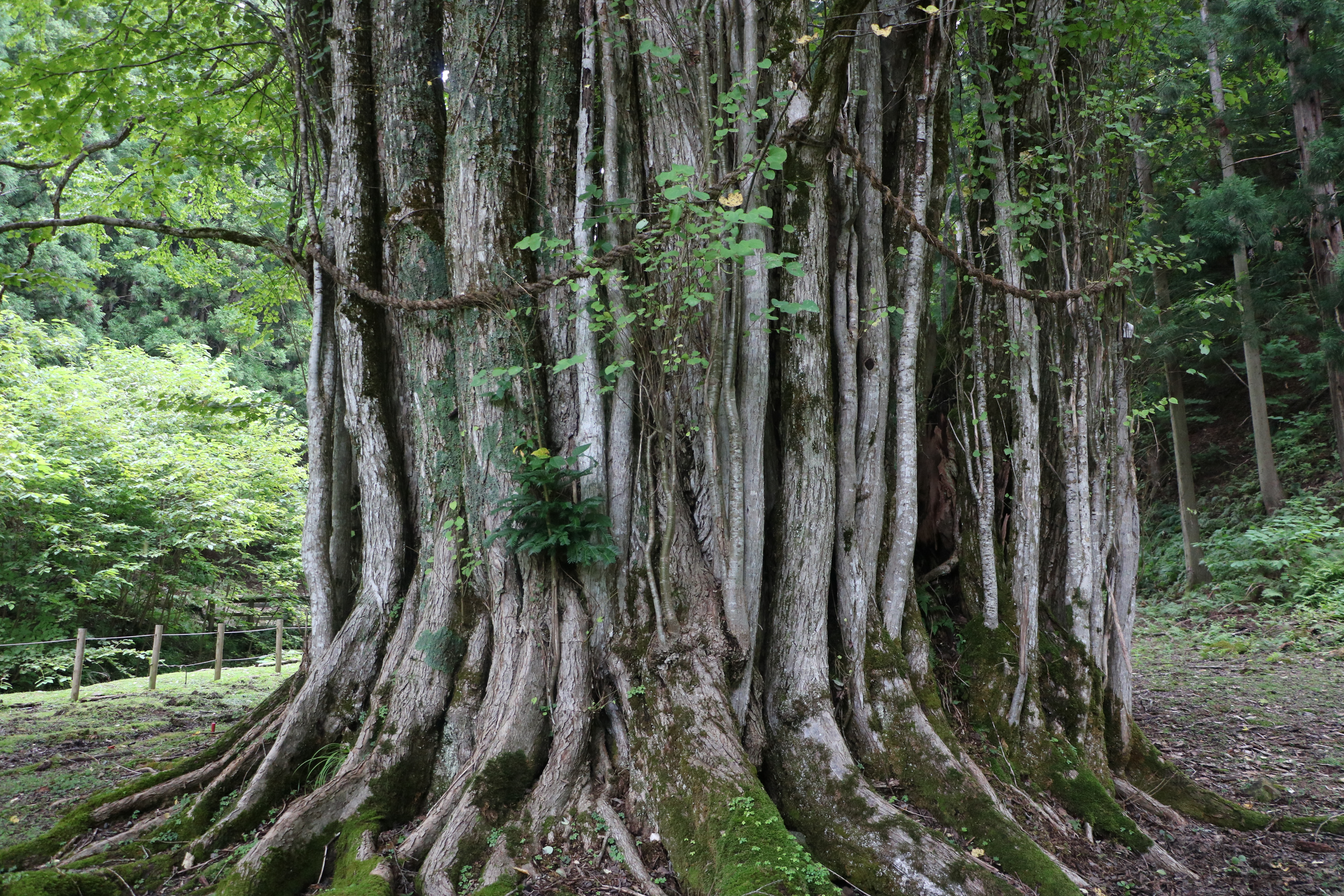 Itoi-no-Okatsura